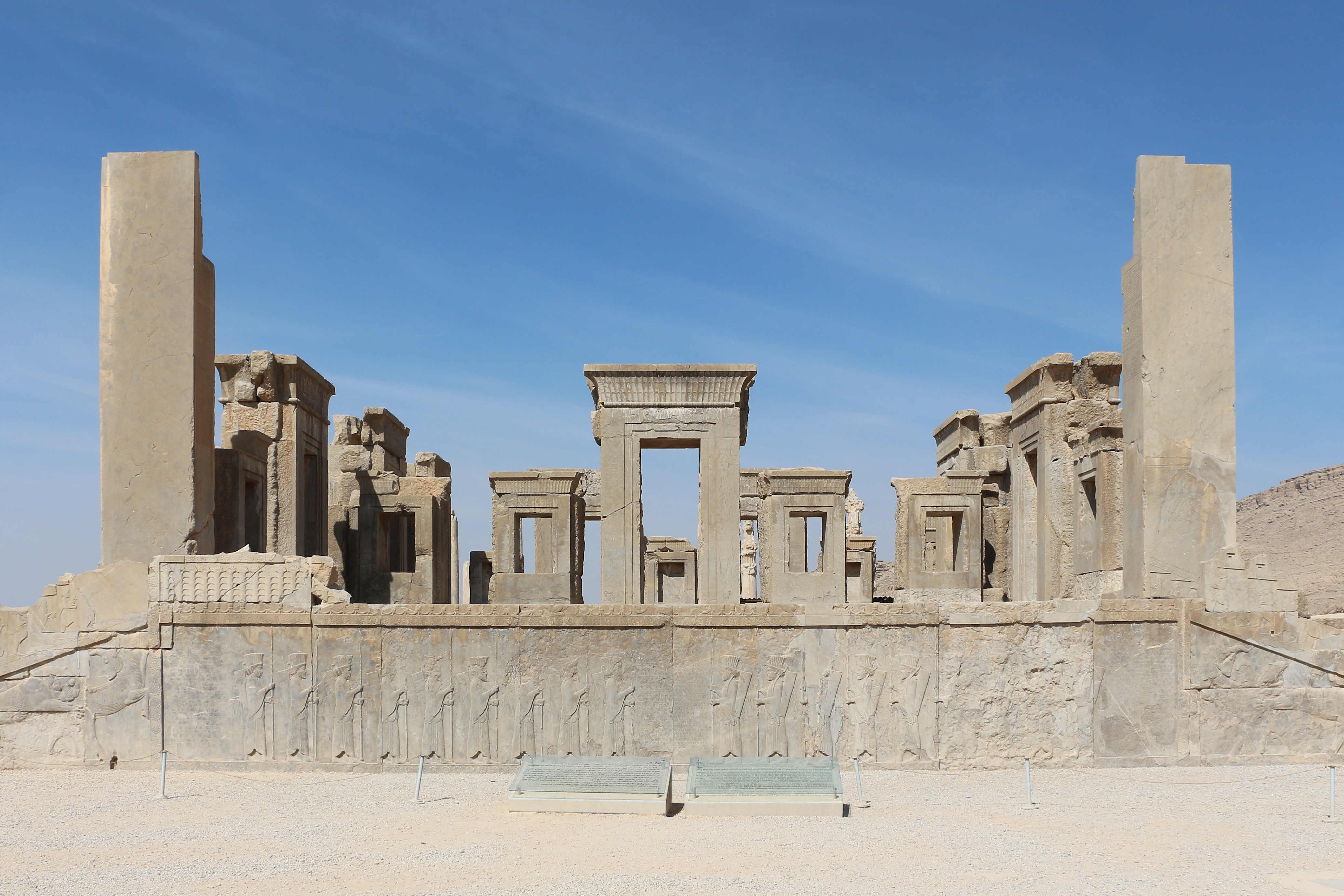 Palace of Darius I (Tachara), Persepolis, Iran